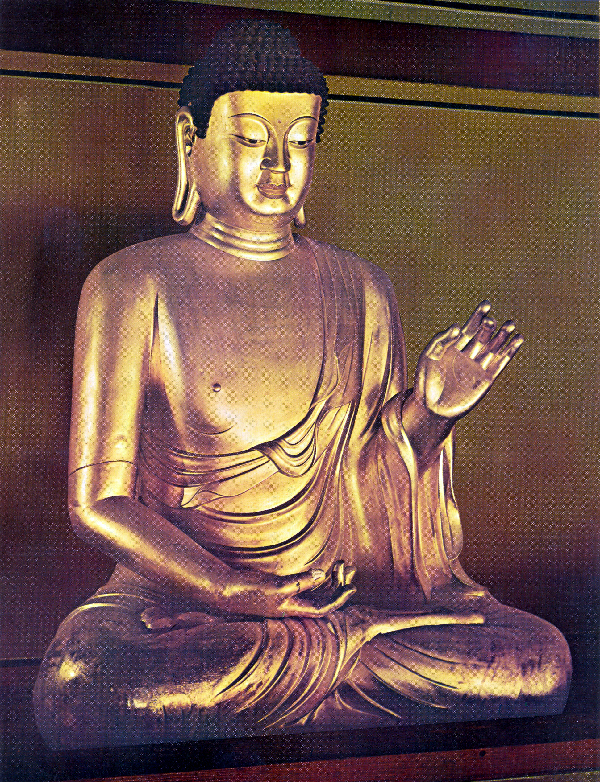 Gilt-bronze Amitābha at the Geungnakjeon Hall of Bulguksa Temple, Korea.